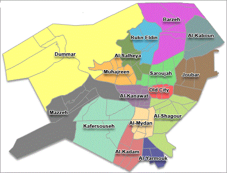 The 16 districts of the city/governorate of Damascus, Syria.